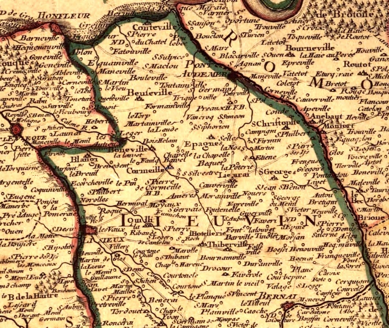 The lieuvin on a map of Normandy by Guillaume Delisle.